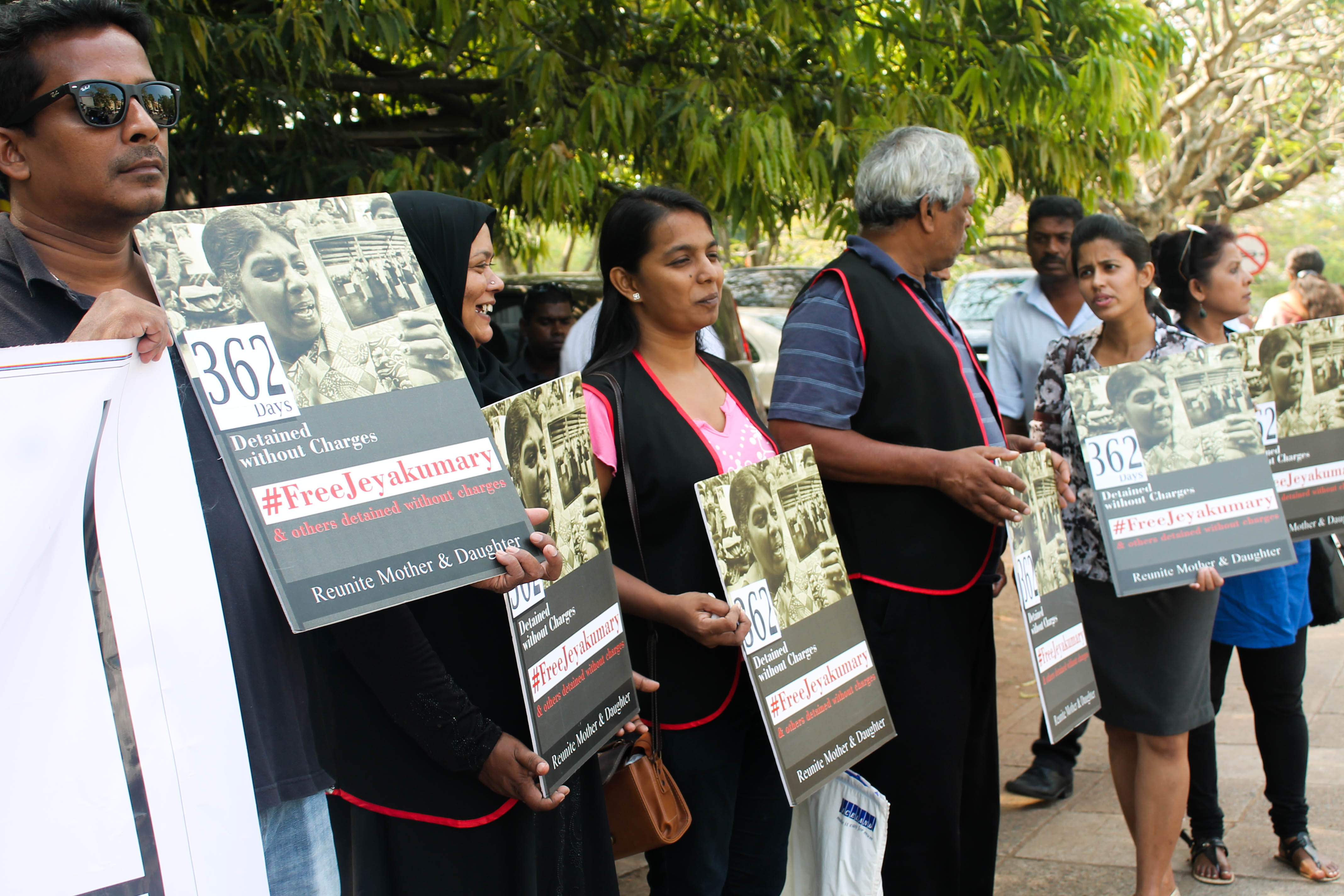 IMG_6505 Release on bail of Jeyakumari Balendran on 10 March 2015.